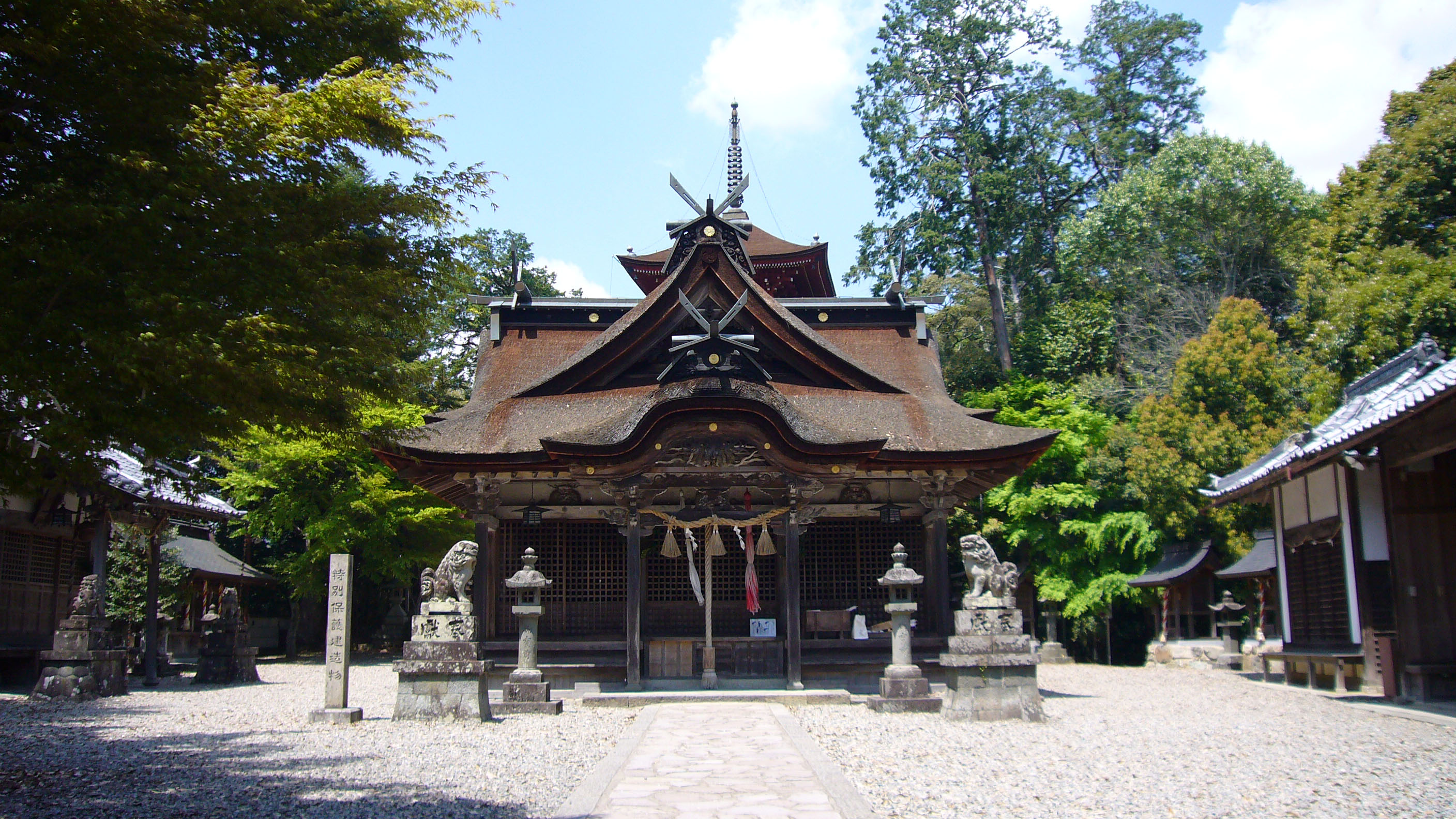 Kaibara Hachiman Jinja in Tamba, Japan